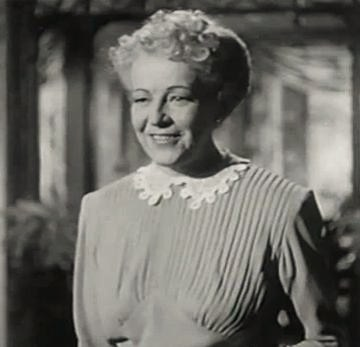 Mady Christians in All My Sons (1948) - trailer (cropped screenshot).